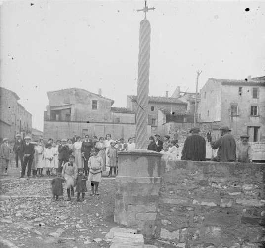 Verdú in 1916. Original caption: "Nova creu de Verdú".